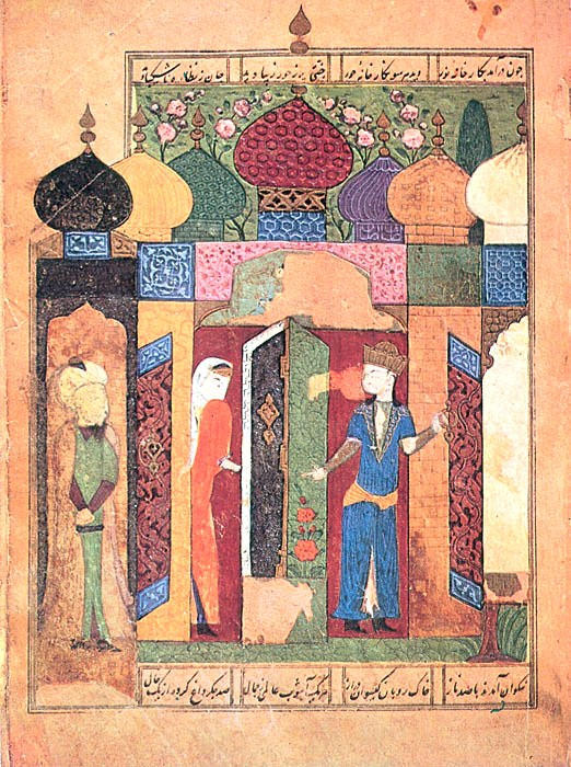 "Bahram Gur at the palace with seven domes," 1495-1496, polychrome painting on paper, calligrapher: Hasan ibn al-Hadi Kamáloddín al-Hossein al-Yazdi; Institute of Manuscripts of the Academy of Sciences of Azerbaijan, Baku, Azerbaijan. Story, written by Amir Khosrow Dihlaví (1253-1325) in the Hasht-Bihisht.